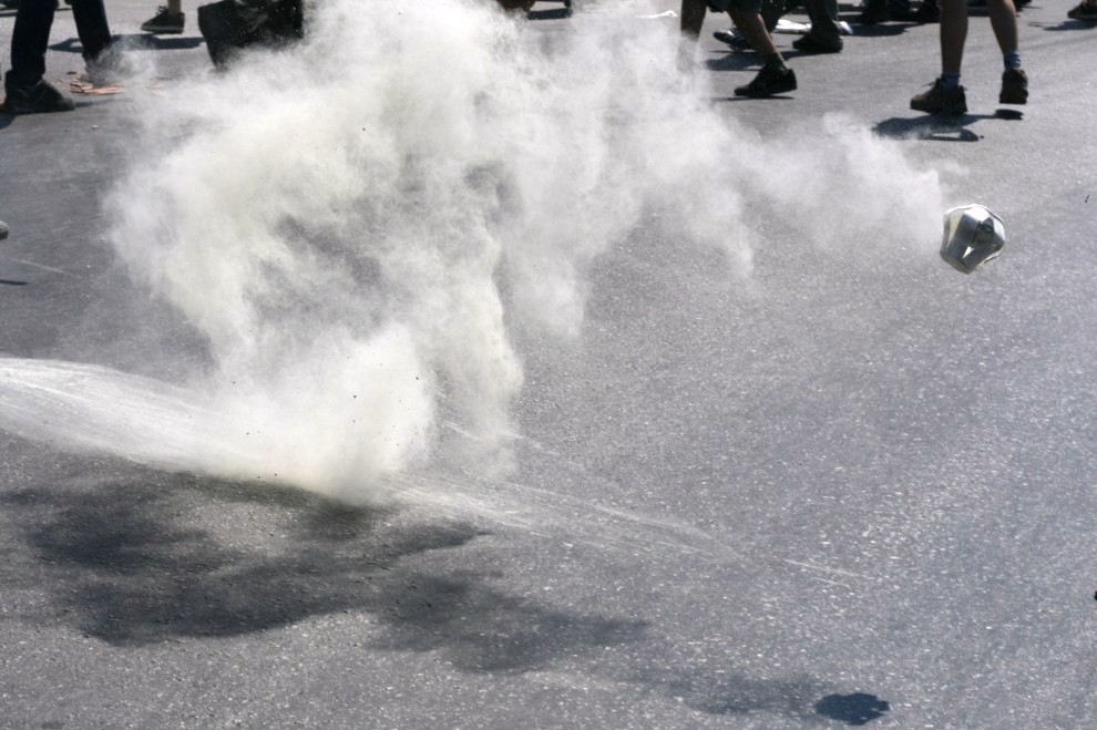 A Tear gas canister that has just exploded and bounced off the ground, during the crackdown of a student demonstration at Chania, Crete